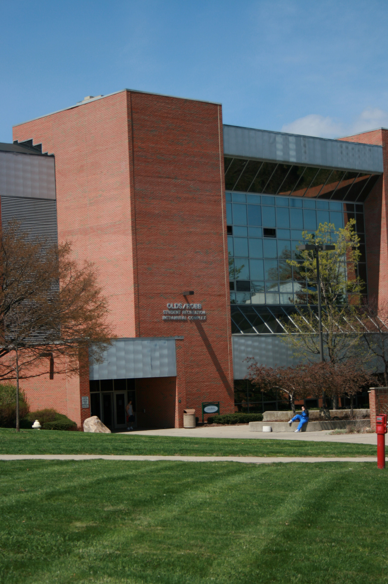 Olds/Robb Recreation and Intra-Mural Sports center at Eastern Michigan University